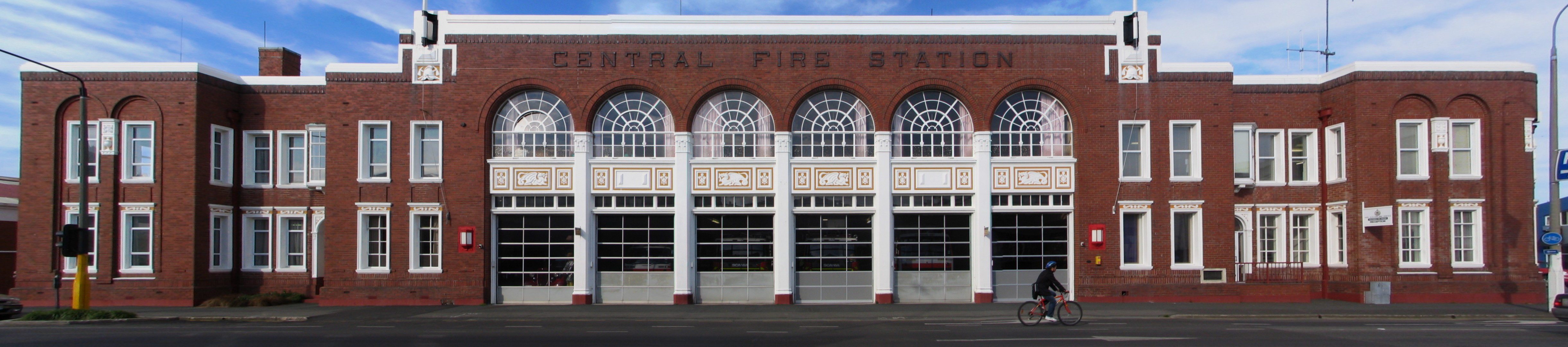 Dunedin Central Fire Station panorama, New Zealand. Stitched from three photos with Hugin. New Zealand Historic Places Trust Register number: 7270